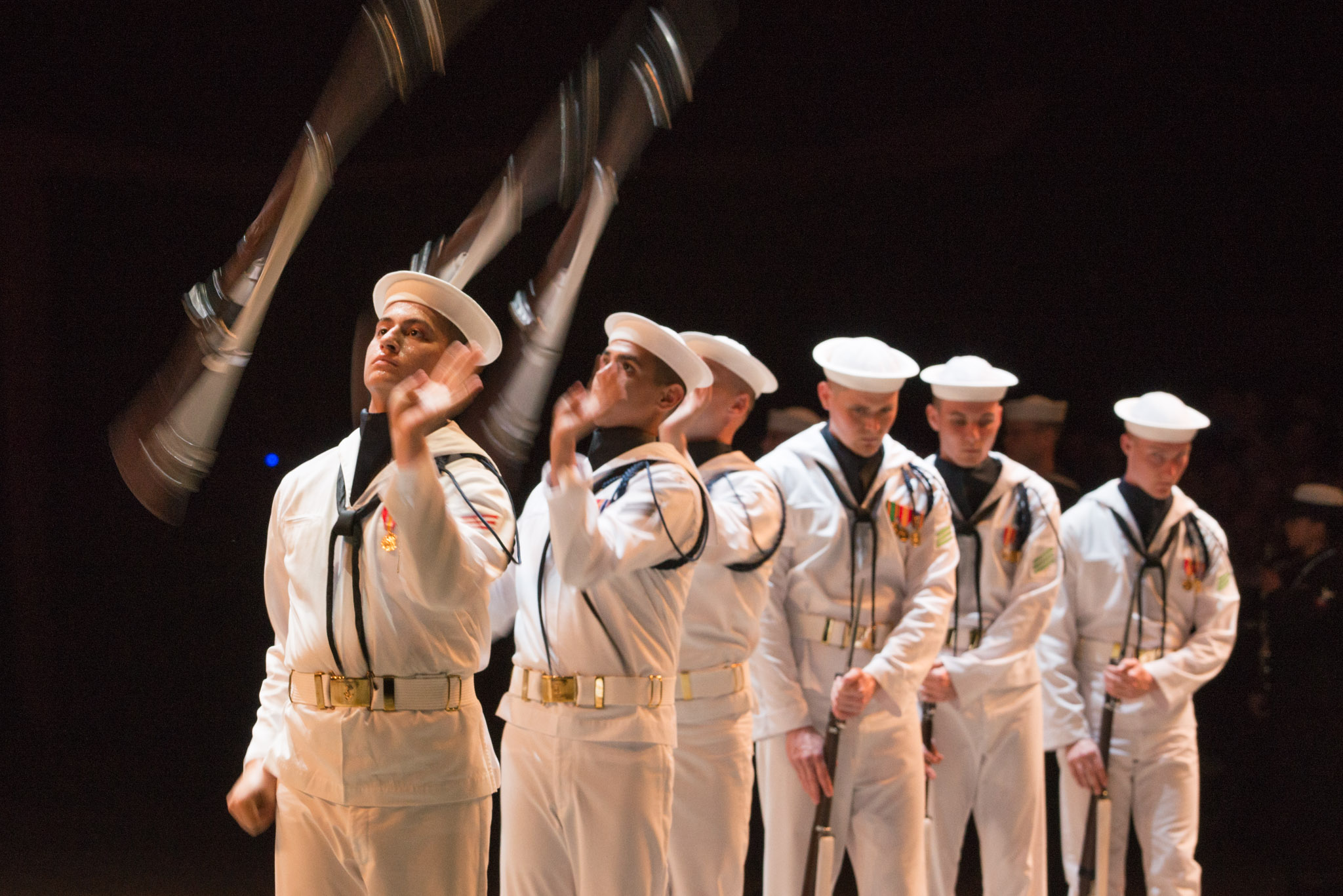 170429-N-HG258-365 NORFOLK (April 29, 2017) Members of the U.S. Navy Ceremonial Guard Drill Team perform at the Scope Arena as part of the 2017 Virginia International Tattoo in Norfolk, Va. (U.S. Navy photo by Senior Chief Musician Stephen Hassay/released)